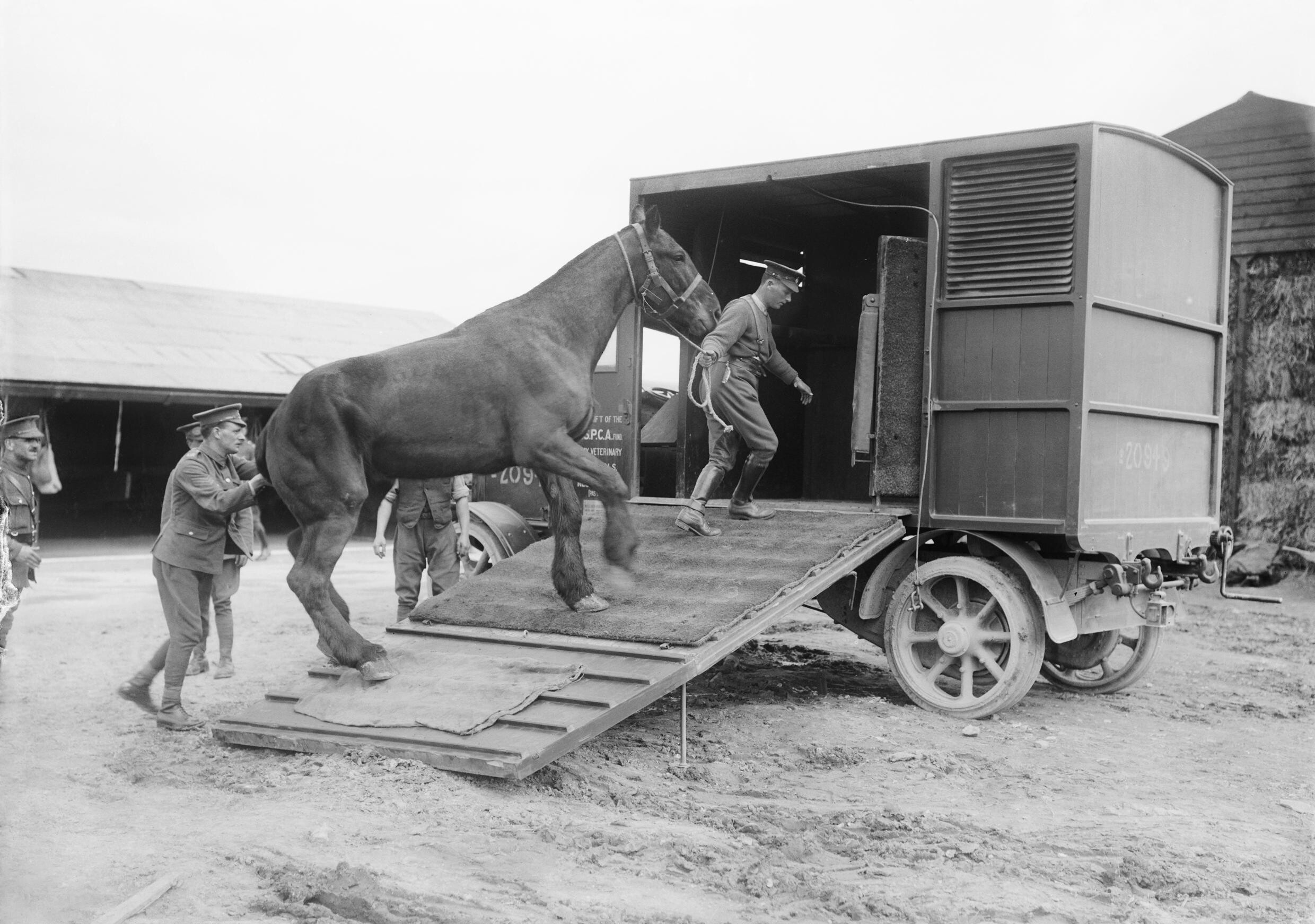 The Royal Army Veterinary Corps on the Western Front, 1914-1918. Horse being led to a motor ambulance at No. 10 Veterinary Hospital at Neufchatel; near Etaples, 2nd March 1916. Ambulance was presented by the Royal Society for the Prevention of Cruelty to Animals.